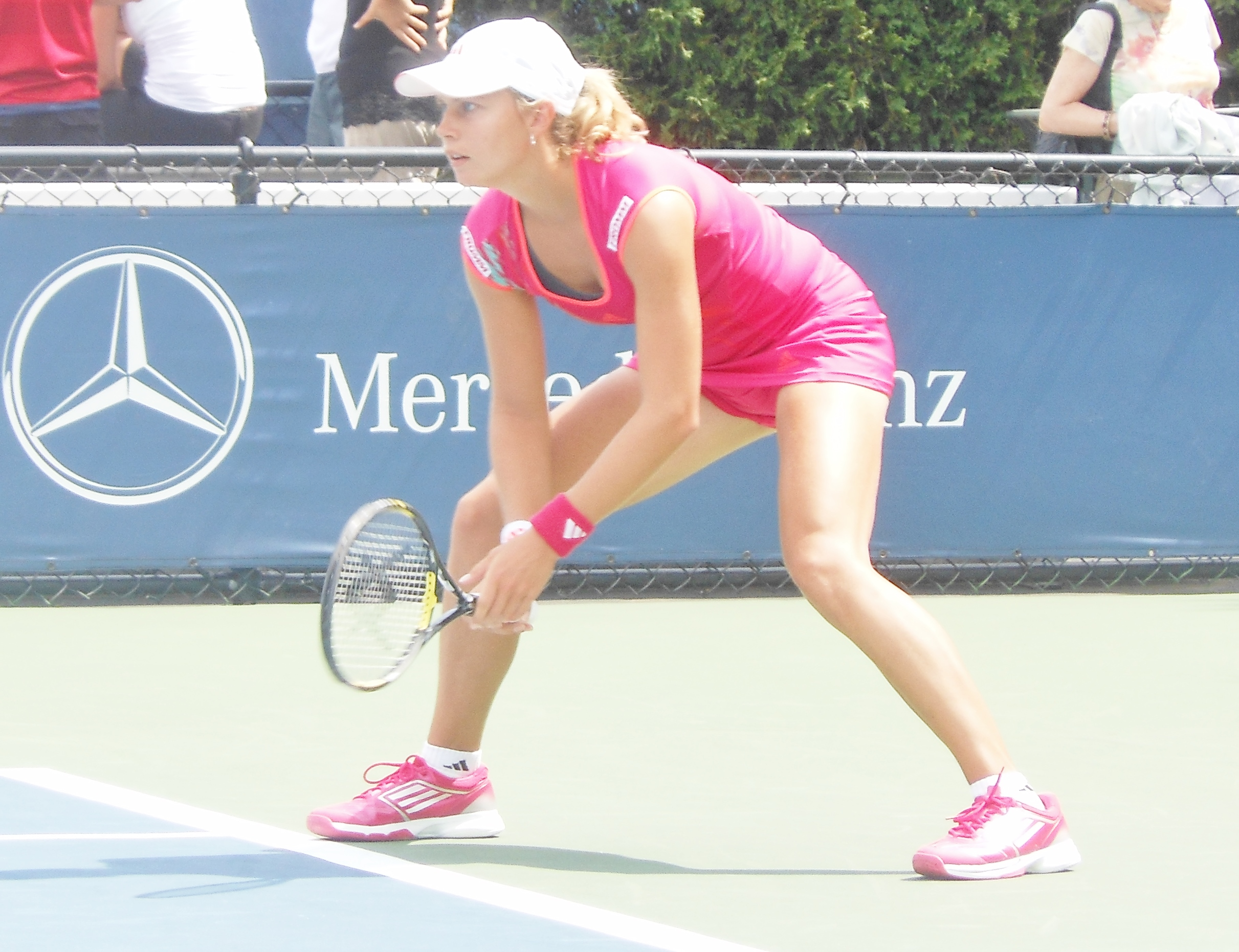 Stephanie Vogele US Open